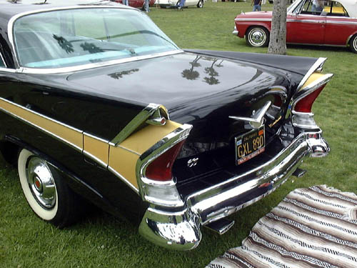 1958 Packard 2-door hardtop (Model 58L-J8) from the rear.